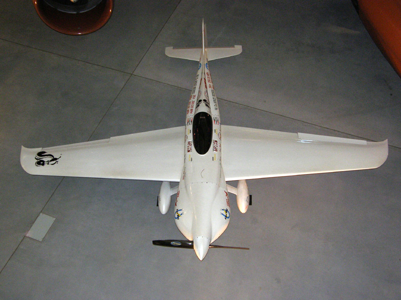 The Sharp DR90 Nemesis at the Air & Space Museum's Hazy Center